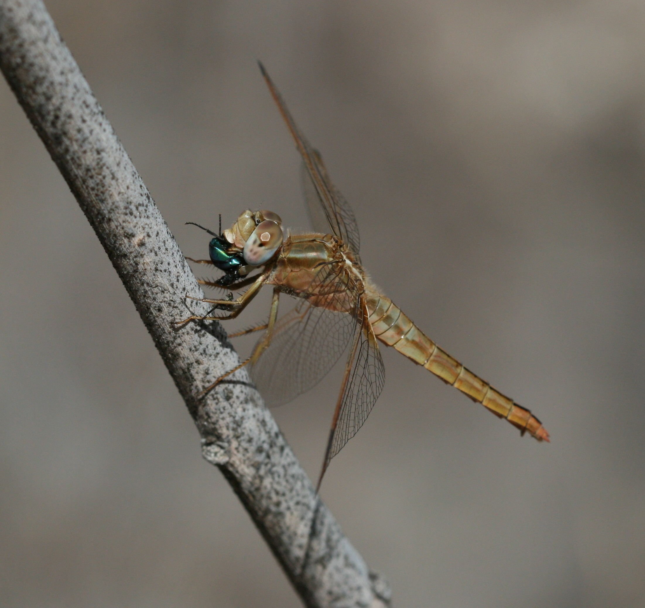 Broad Scarlet (Crocothemis erythraea) female. Callao Salvaje, Tenerife.